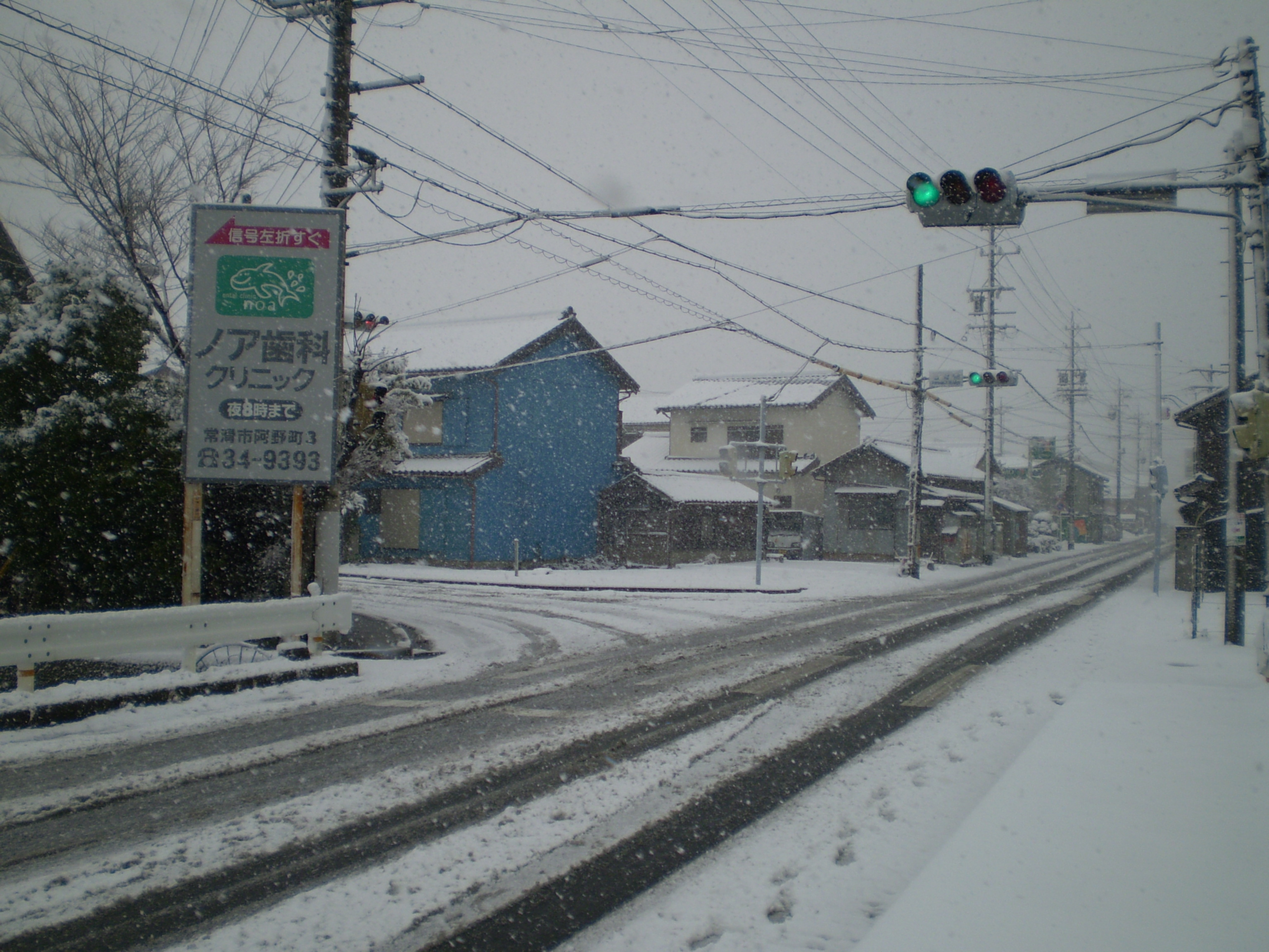 The Karasaki Bridge Intersection on the Aichi Prefectural Road Route 252 in Tokoname City